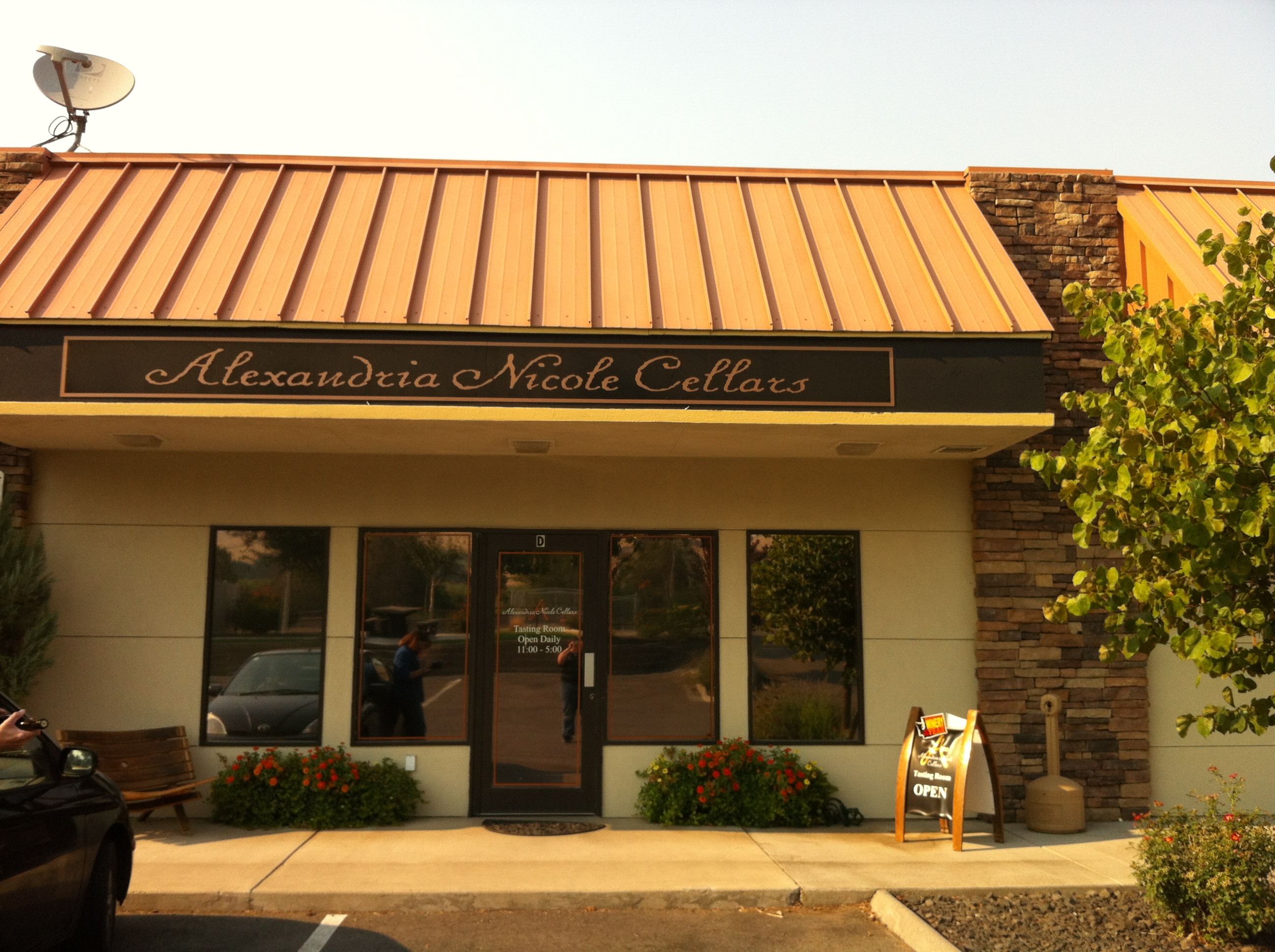 Outside of the Alexandria Nicole Cellars Tasting Room in Prosser, Washington